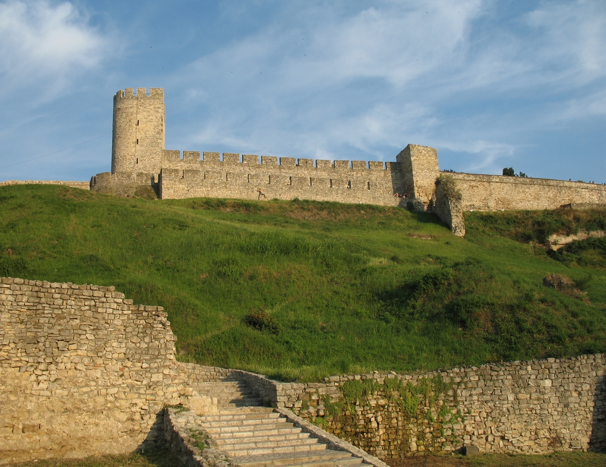 North wall of Belgrade fortress with Despots tower, Serbia.